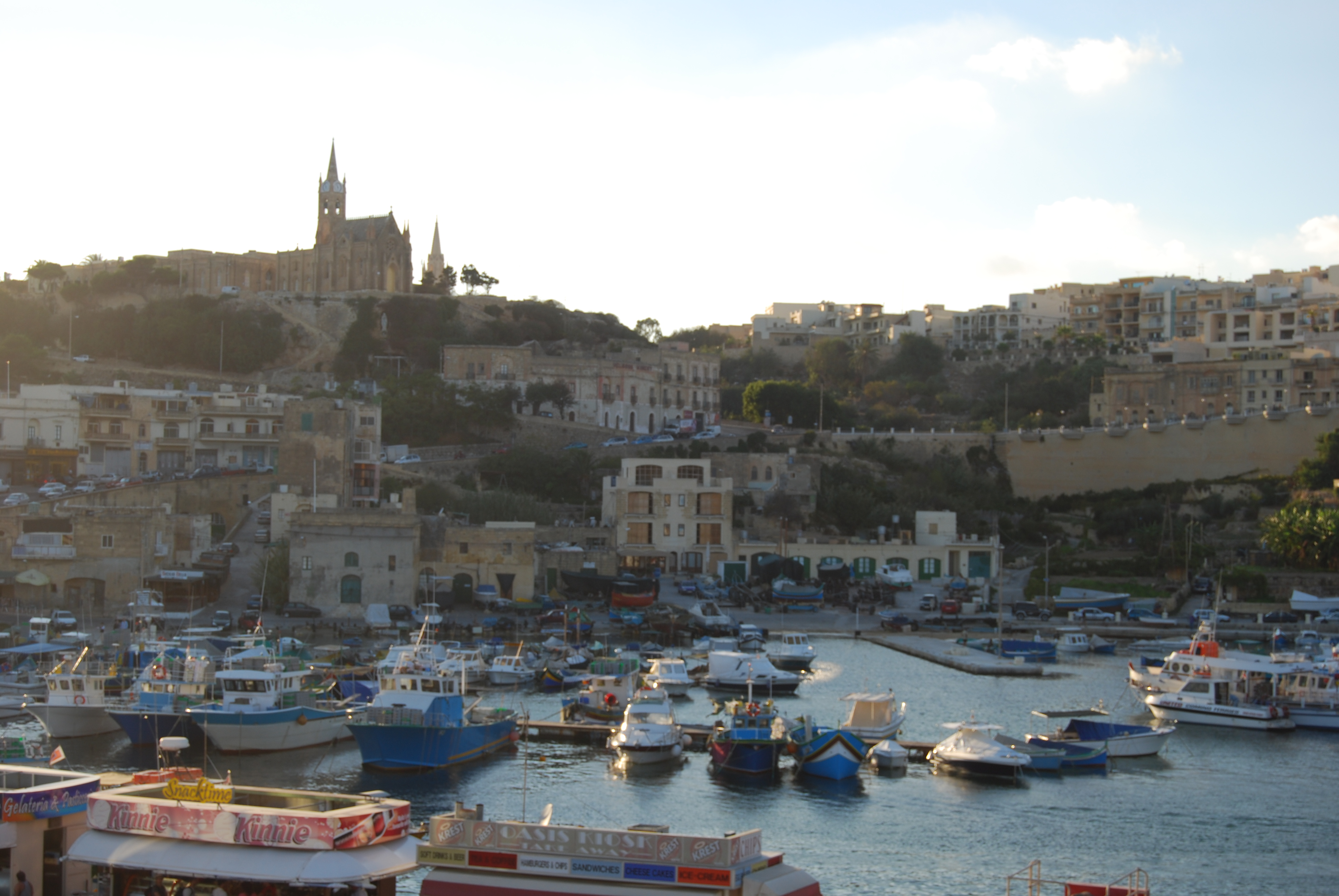 Mġarr, Gozo, Malta